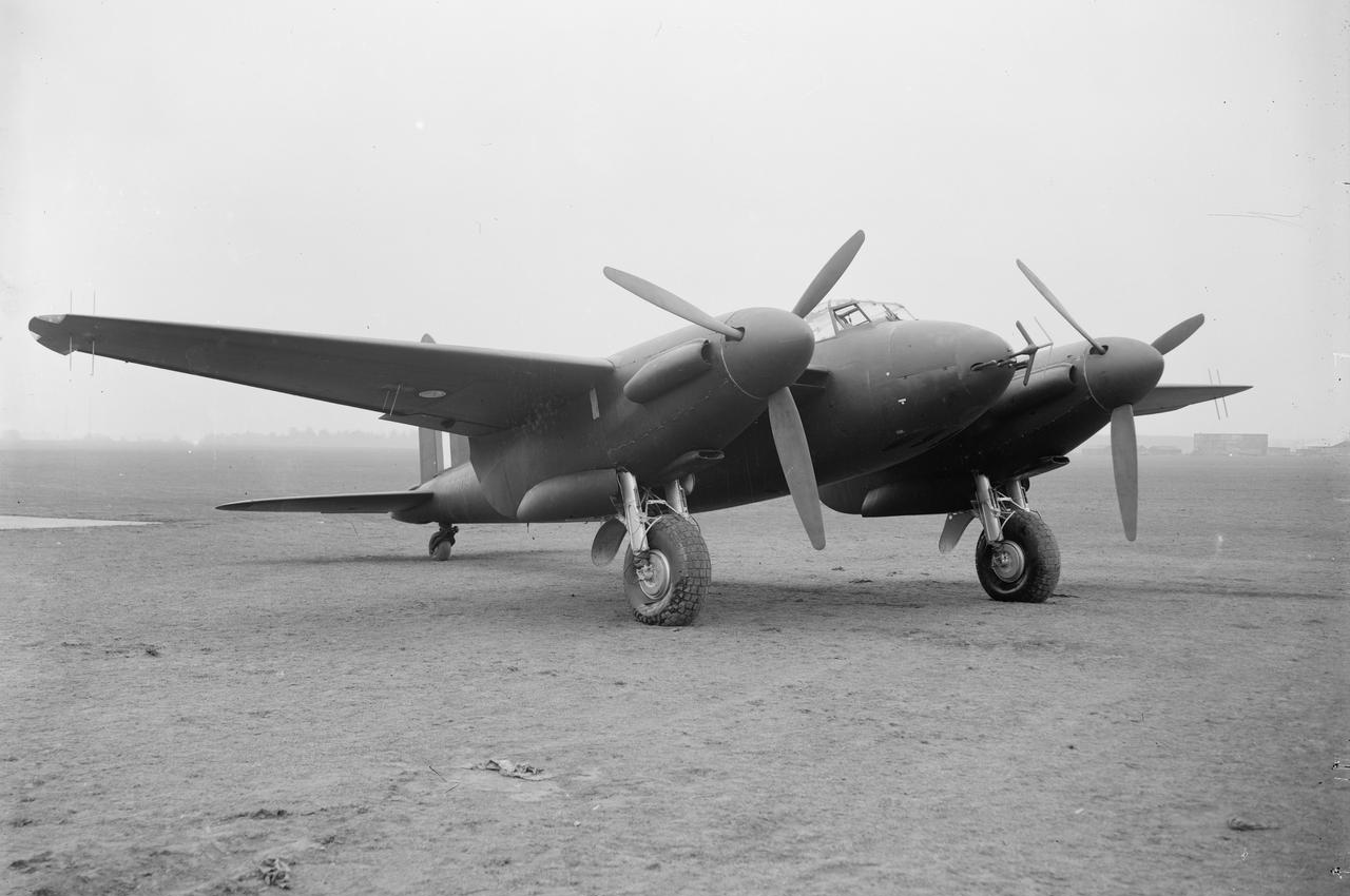 Mosquito NF Mark II, DD609, fitted with AI Mark IV radar, parked at the de Havilland's aerodrome, Hatfield, It was later delivered to the Aeroplane and Armament Experimental Establishment at Boscombe Down for tests. DD609 later saw service with No. 151 Squadron RAF, and later with 54 Operational Training Unit. Details of the AI Mk. IV antenna system are evident in this image. The transmitter antenna is mounted on the nose, and the vertical dipoles of the horizontal receiver antennas can be seen near both wing tips. The lower vertical receiver antenna can be seen near the landing light (the circular object on the bottom of the near wing); the upper antenna is directly above it, obscured behind the wing in this image. This image appears to be at the end of a demonstration flight for a visit by the Duke of Kent to the de Havilland plant in November 1941. See E(MOS) 516 for a very similar image with the engines still running.